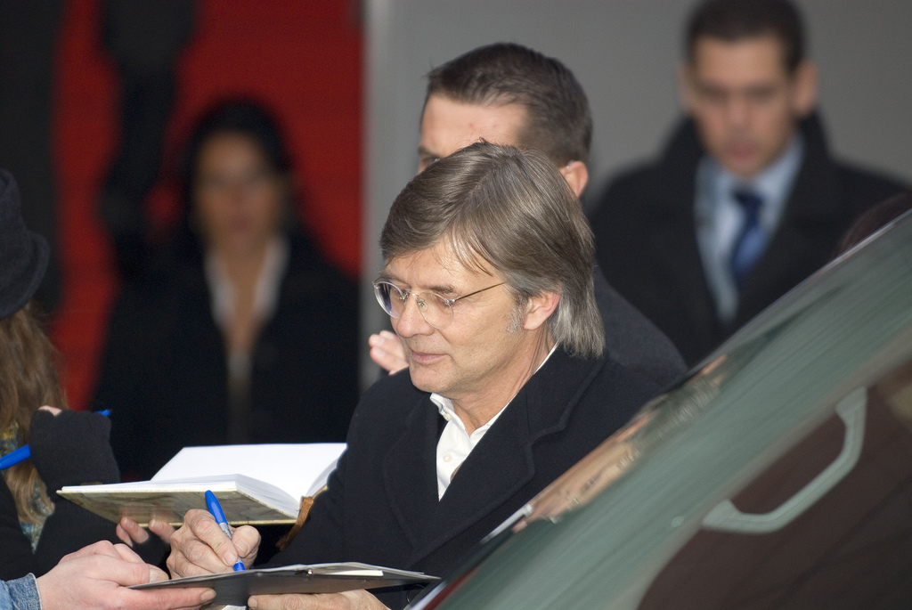 Leaving the press conference of "Goodbye Bafana", director Bille August, Hyatt Hotel, Potsdamer Platz, Berlin